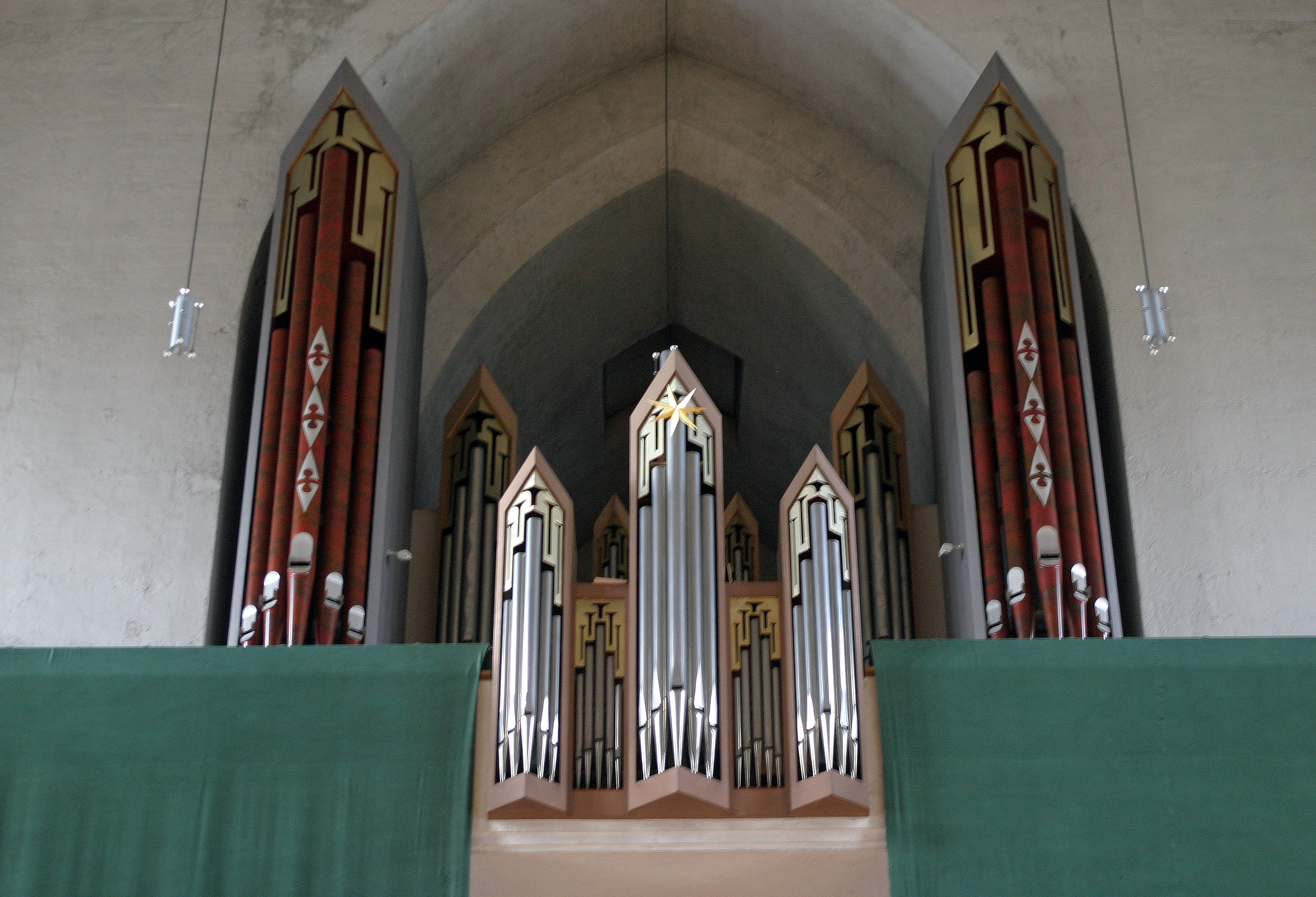 Main Organ of the Church Mariahilf in Munich, Bavaria, Germany